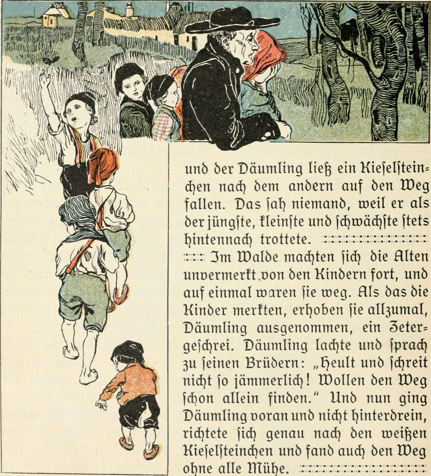 Title: Gerlach's Jugendbucherei Year: 1900 (1900s) Authors: Bechstein, Ludwig, 1801-1860 Fraungruber, Hans, 1863-1933 Subjects: Fairy tales Publisher: Wien und Leipzig : Gerlach & Wiedling Text Appearing Before Image: en follte, fid) unö feinenBrüöern 3U l)elfen.::::::::::::::::::::::: S^üljmorgens lief öer Däumling an öen Bad), fud)te öie !leinenn;afd)en coli roei^er Kiefel unö ging toieöer l)eim. Seinen Brüöernfagte er oon öem, toas er erl)ord)t l)atte, fein SterbensrDÖrtd)en. Hunmad)ten fid) öie (Eltern auf in öen IDalö, l)ie6en öie Kinöer folgen, Text Appearing After Image: unb ber Däumling lie^ ein Kiefelftein^d)en nad) bem anbern auf ben IDegfallen. Das \a\:) niemanb, roeil er alsber jüngfte, üeinfte unb (d)roä(i)jte ftetsIjintennad) trottete. ::::::::::::::::;::: 3m IDalbe mad)ten fid) bie Ritenunoermerft.oon ben Kinbern fort, unbauf einmal töaren jie loeg. flis bas bieKinber mer!ten, erl)oben jie all3umal,Däumling ausgenommen, ein 3eter=gei(i)rei. Däumling ladjte unb fprad)3U feinen Brübern: „f)eult unb fd)reitni(i)t jo jämmerlid)! IDollen ben XDegjd)on allein finben. Unb nun gingDäumling üoran unb nid)t l)interbrein,ri(i)tete jid) genau nad) ben toei^enKie;eljteind)en unb fanb aud) ben tDegol)ne alle Tnül)e. ::::::::.:::::::::: 52 ;:;;:;:: HIsbic (Elternl)eim!amen,be(d)erteil^nen (Bott (Bclö ins ^aus; eine alte$d)ulö, auf öie jie md)t met)r gel)offtl)atten, touröe oon einem nad)bar an;ie abbe3al)lt, unö nun rouröen (Eg=toaren gefauft, öag ;id) 6er tEi(d) bog.Hber nun tarn aud) öas Reuelein, öagbie Kinöer oerftogen tooröen ro